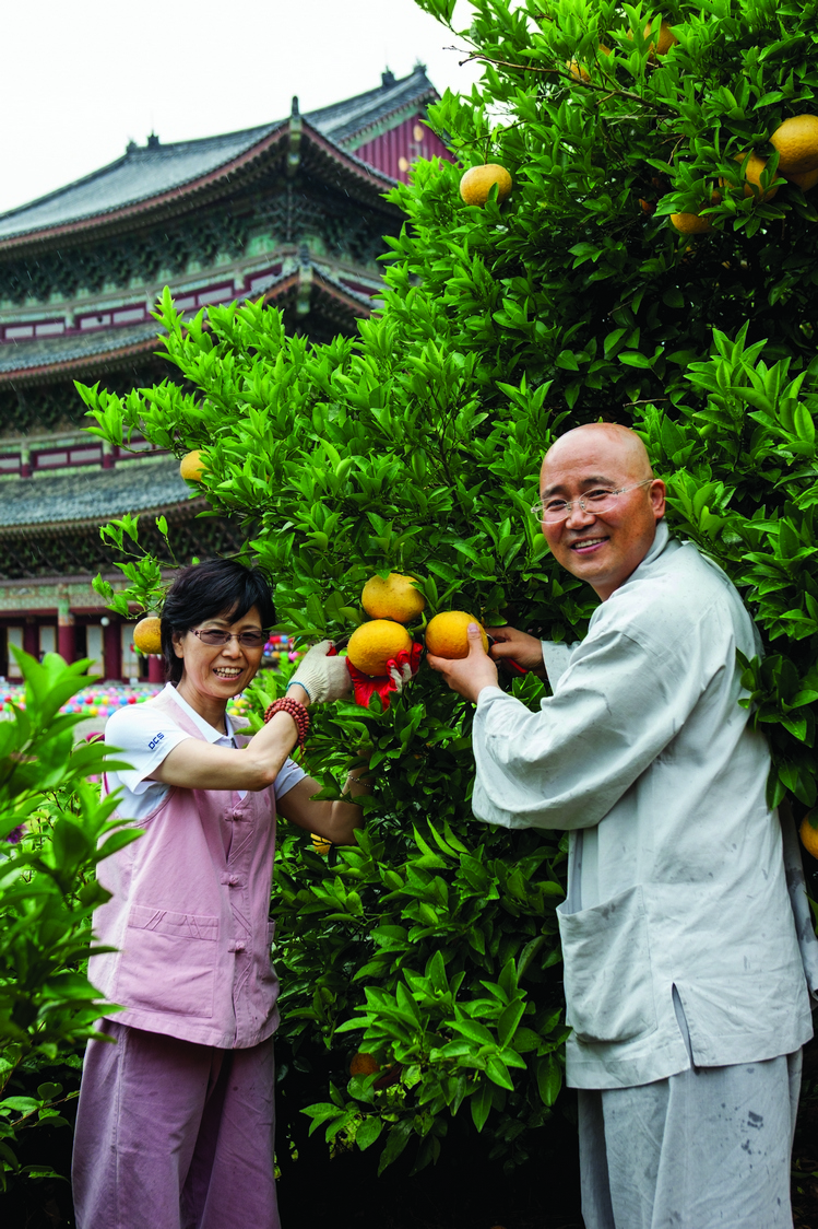 Yakchun temple in South Korea(templestay)